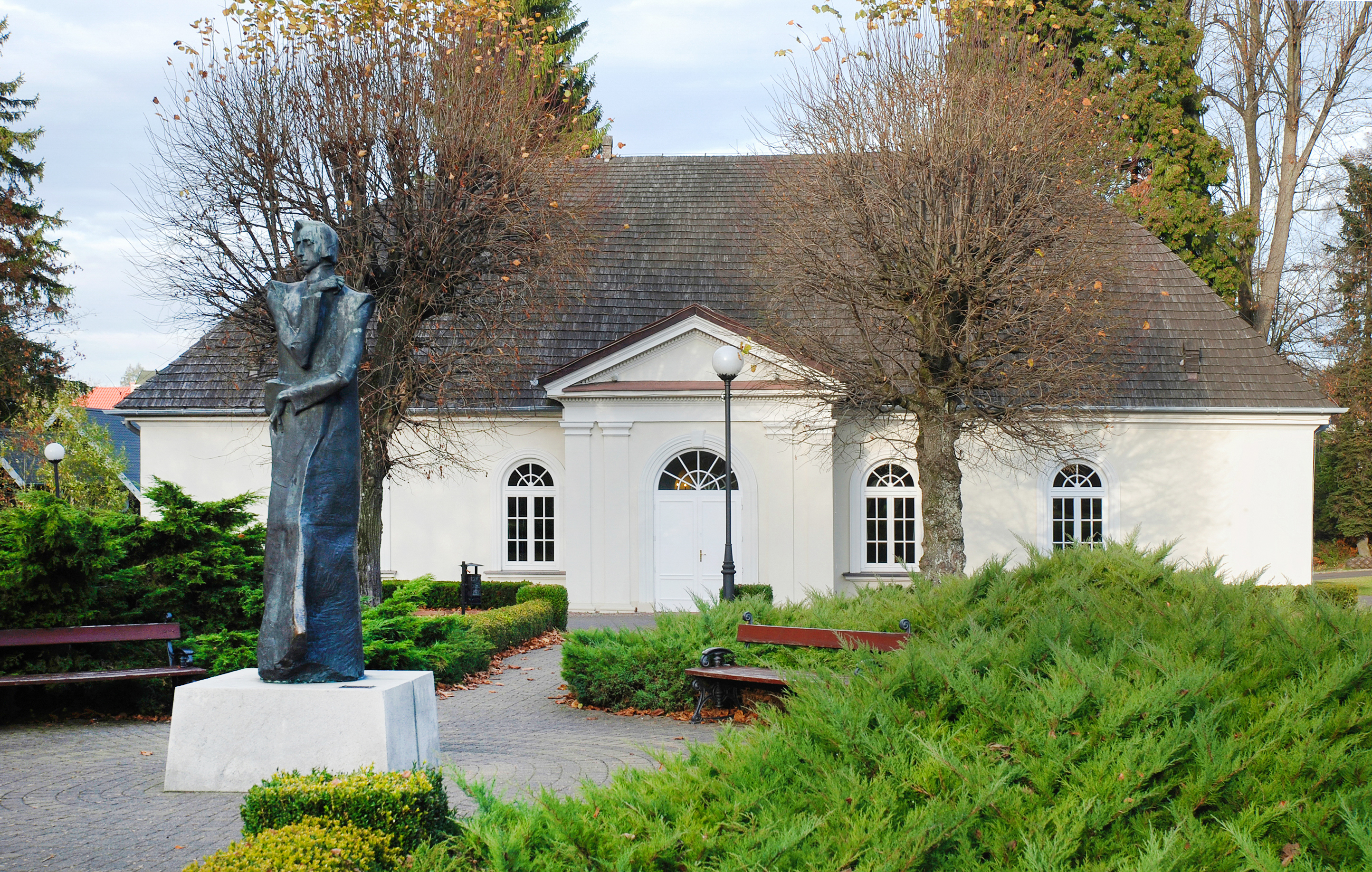 Frederic Chopin Theatre in Duszniki-Zdrój